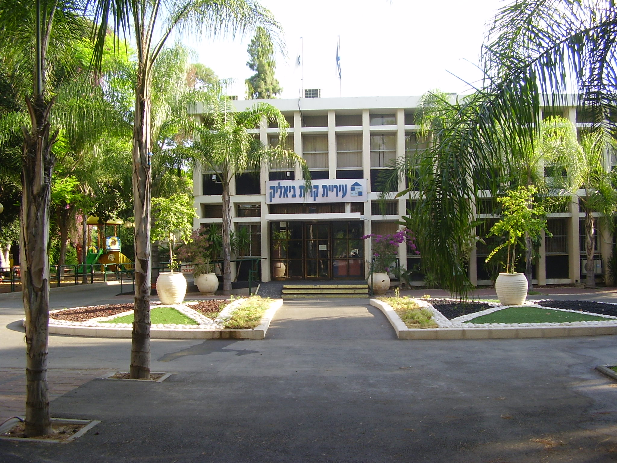 Kiryat Bialik Municipality